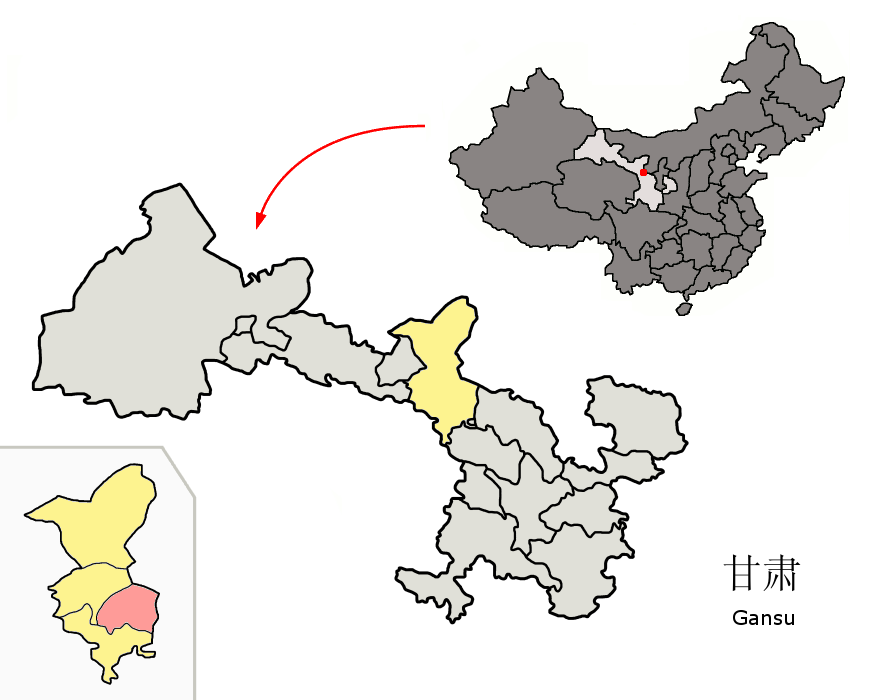 Location of Gulang County (pink) within Wuwei Prefecture (yellow) and Gansu province of China Map drawn in september 2007 using various sources, mainly : Gansu province administrative regions GIS data: 1:1M, County level, 1990 Gansu Counties map from